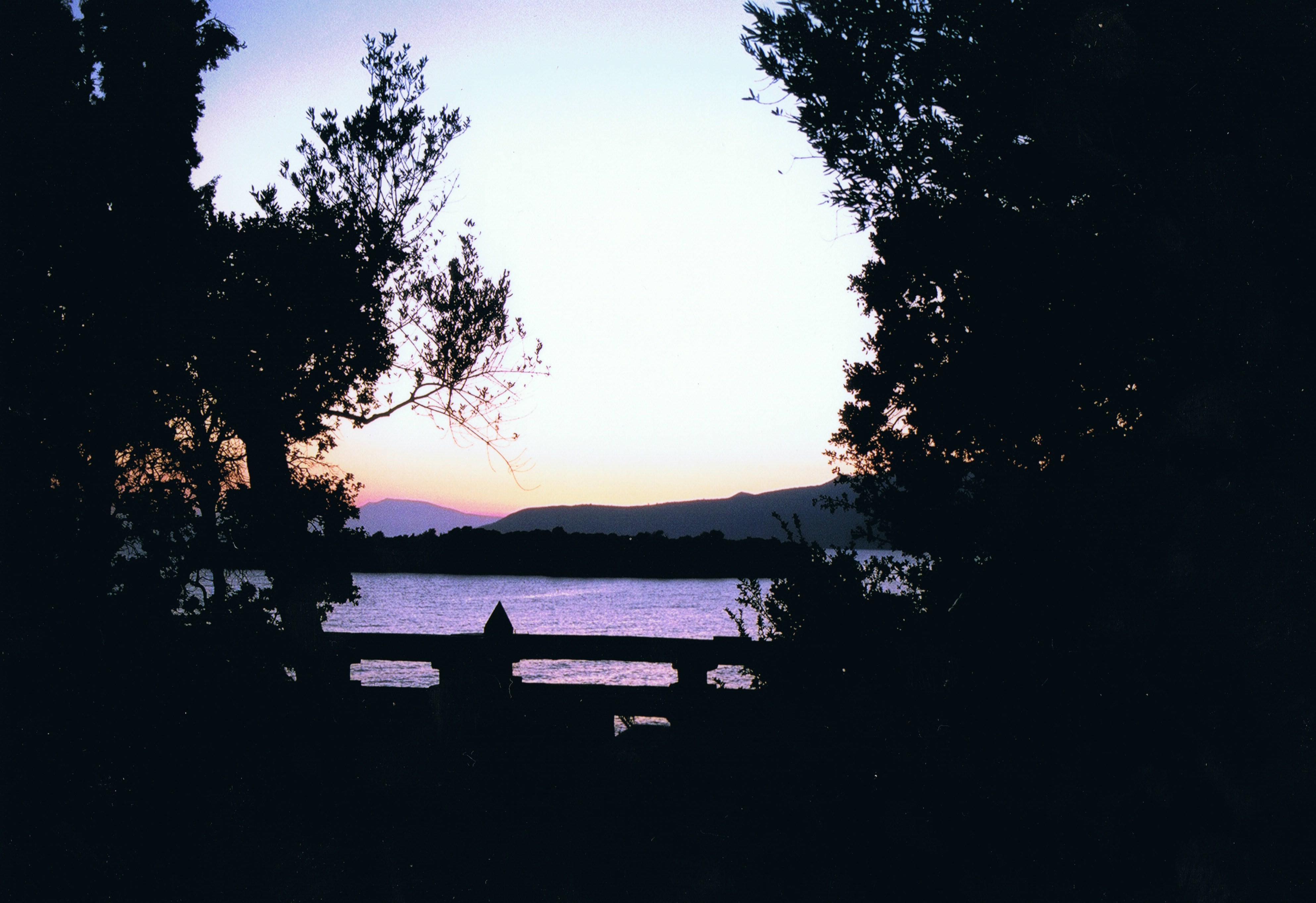 Scan of photo (both by me, R. de Salis, Rodolph (talk) 23:50, 23 November 2014 (UTC)) of the view of the sea from the P. M. L. Fermor villa near Kardamyli, 2007.